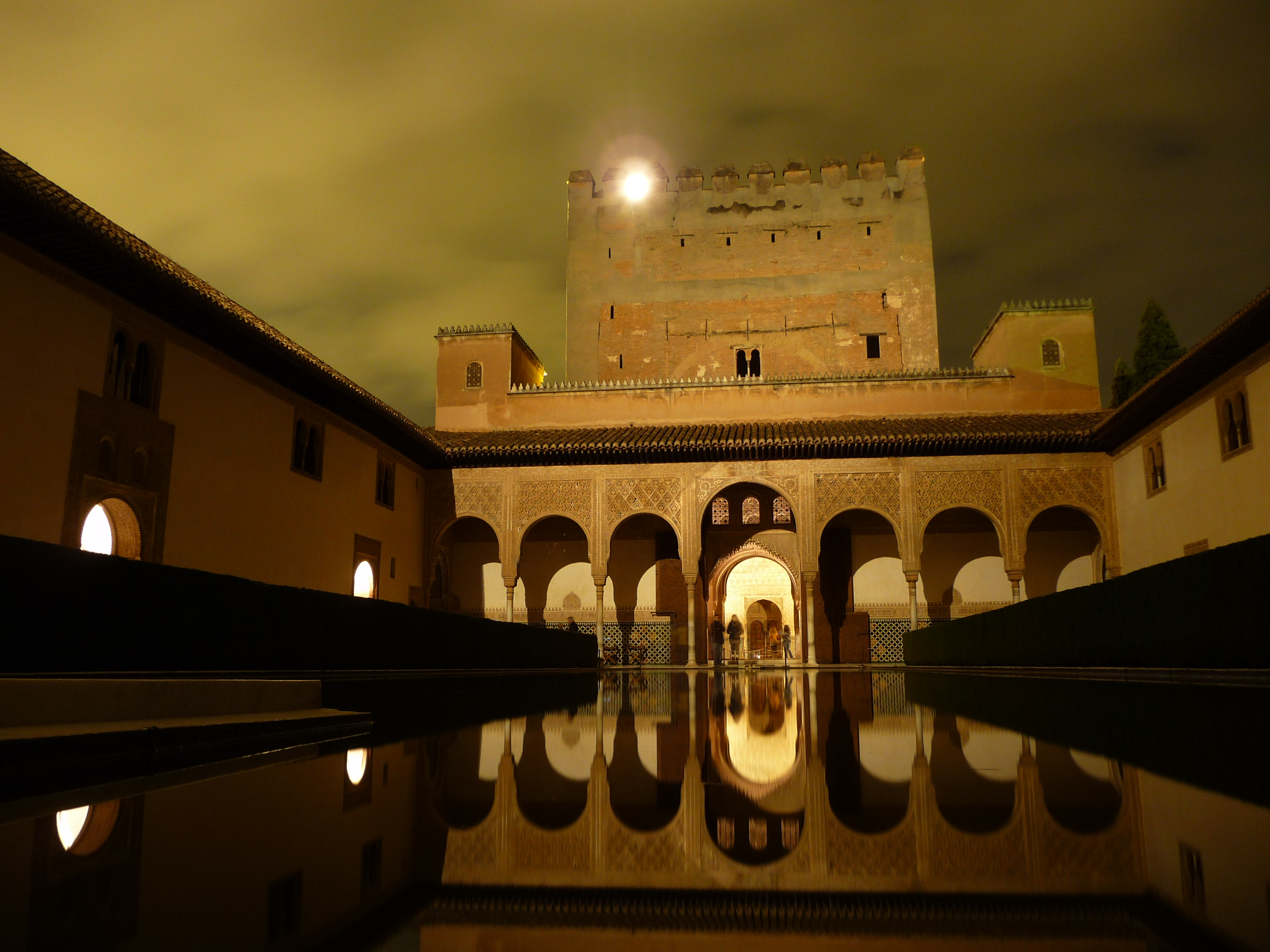 Night picture of the Court of Myrtles and Comares tower in the Alhambra, Granada in Spain